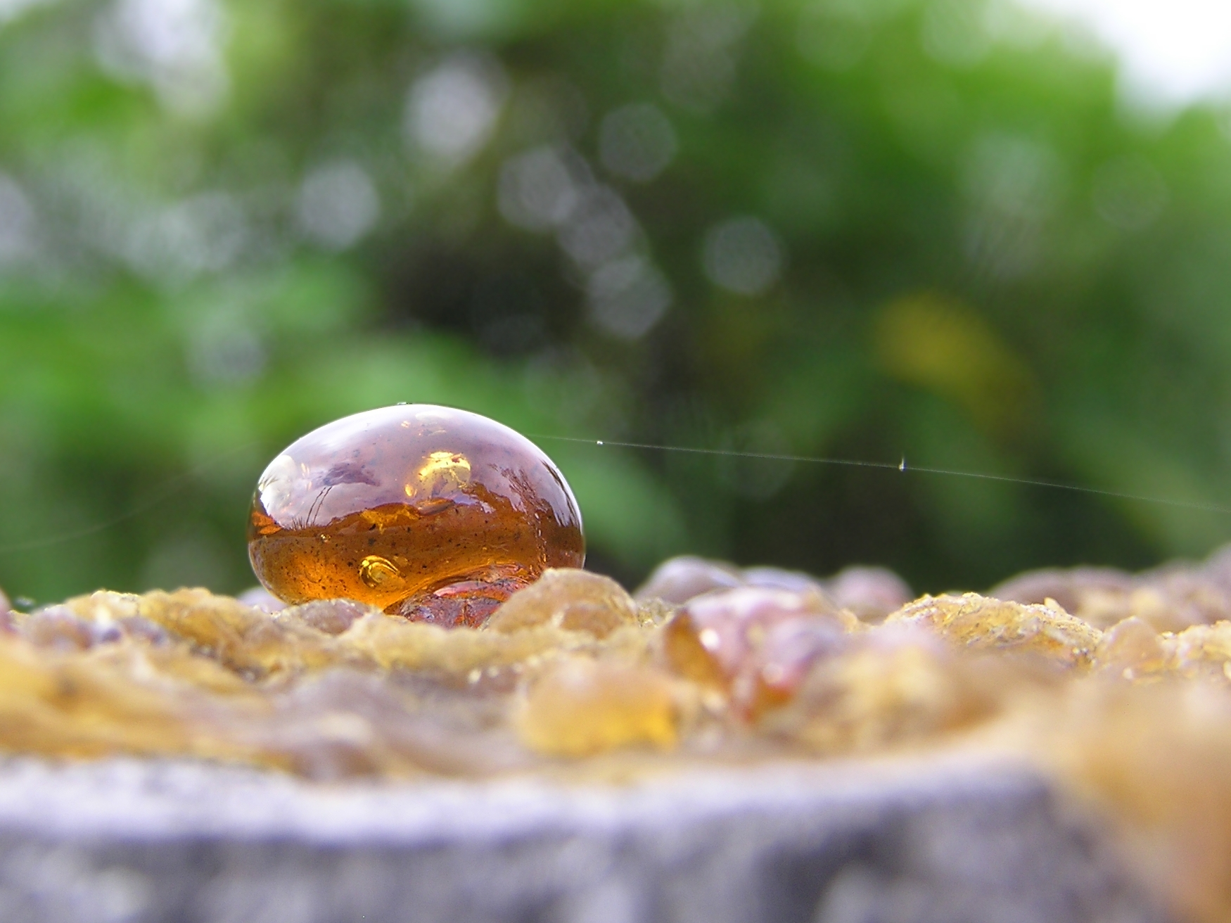 Resin bead on Pinus radiata tree stump. Beads of resin ooze from the stump in hot weather. Initially soft lumps of jelly like this one, they dry out and crystallise like the remnants in the foreground